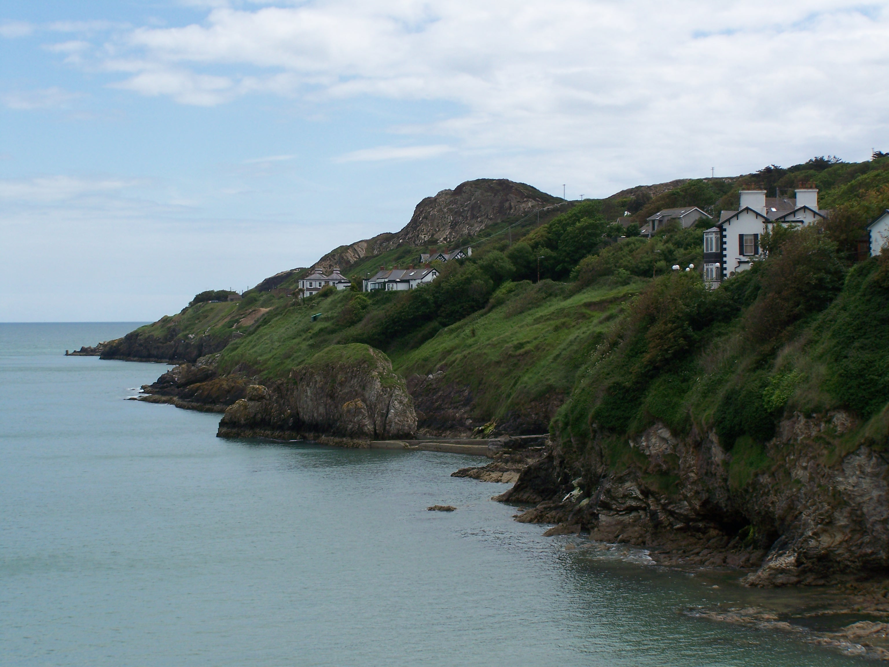 Cliffs with houses in Howth